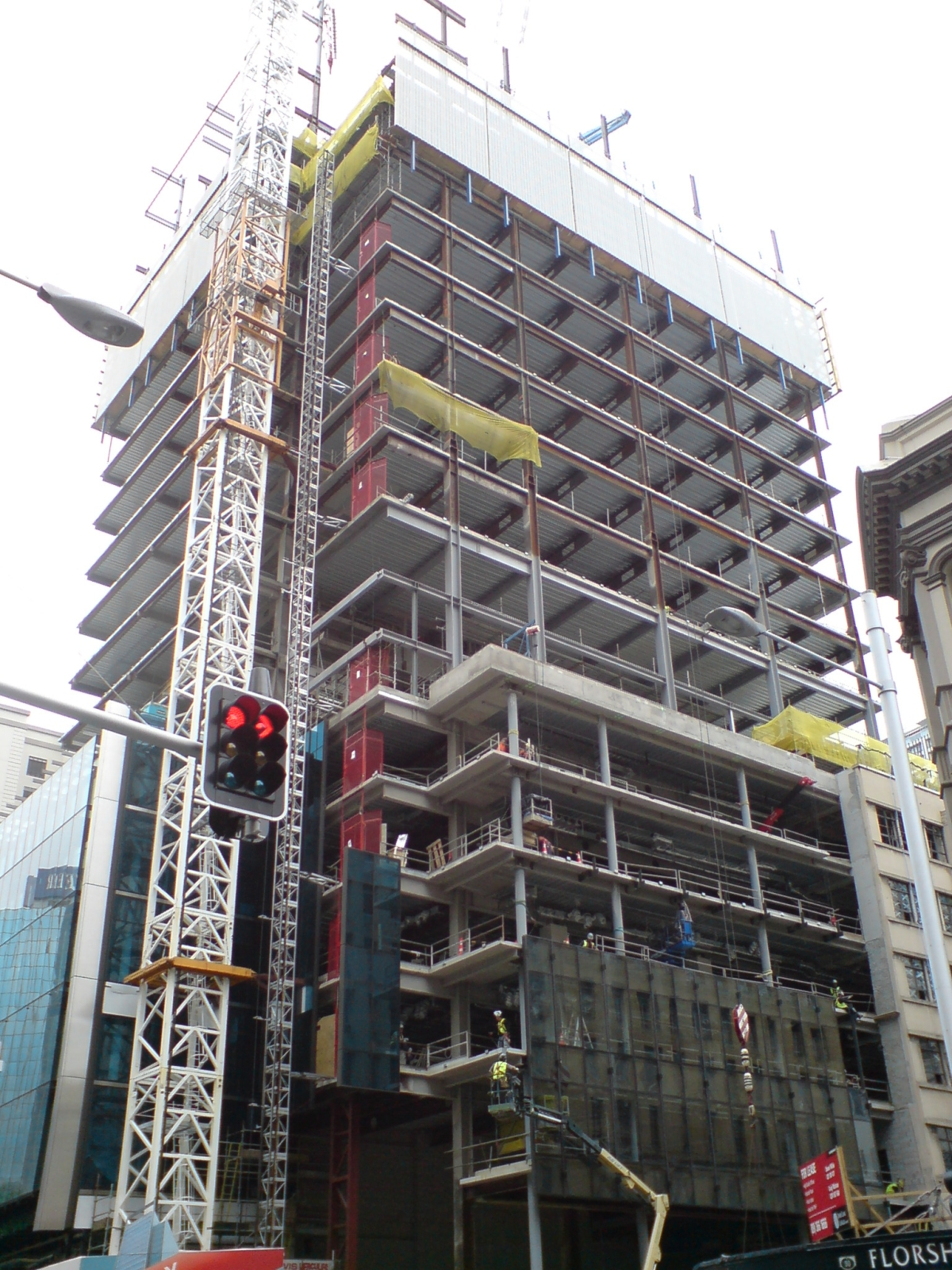 The Jean Batten Building after demolition, now being rebuilt as a new skyscraper (with some rather superficial facade parts of the old building retained, out of sight in the side streets) in the Auckland CBD, New Zealand.